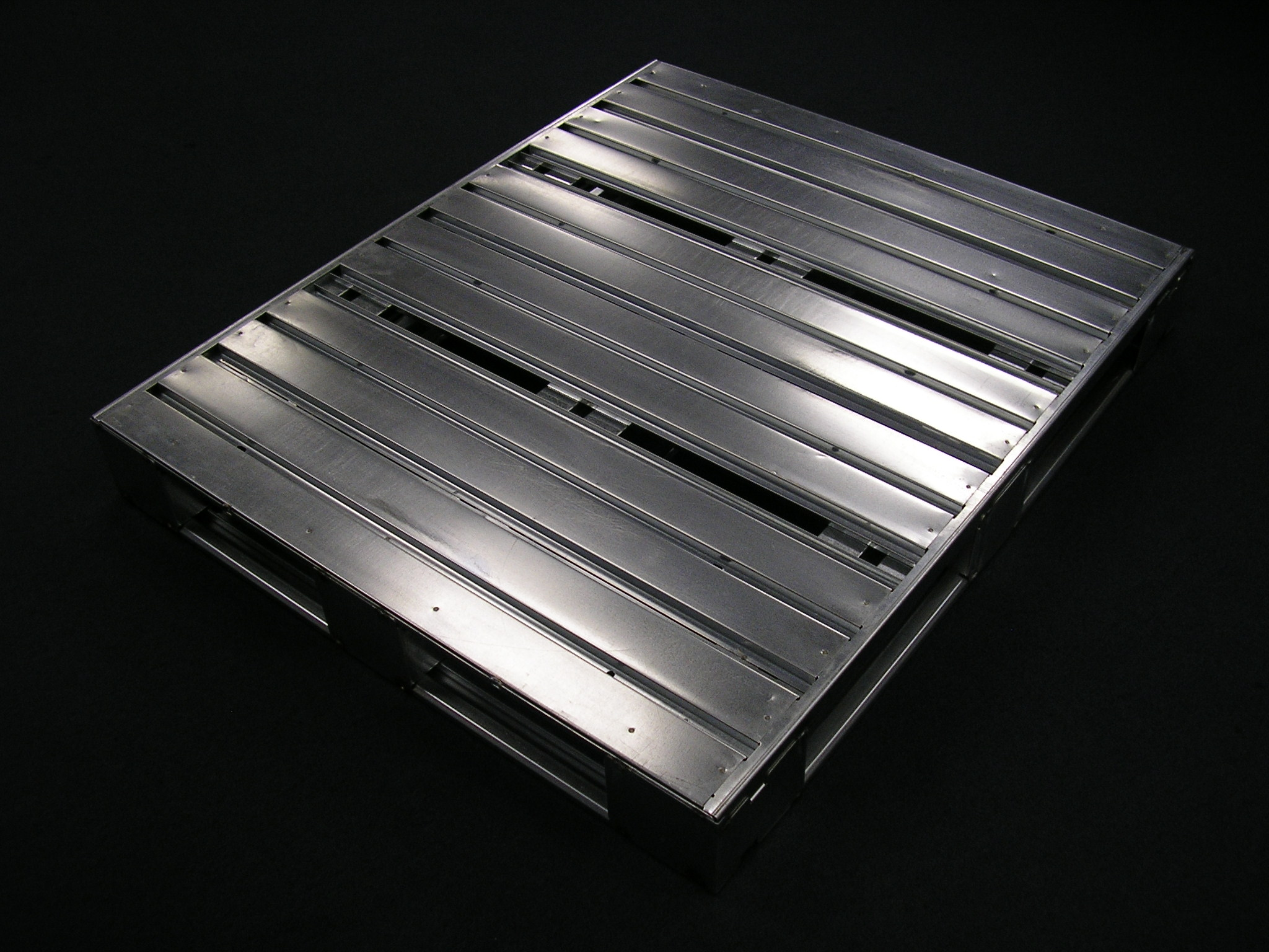 48" x 40" Galvanized Steel Pallet, patented and manufactured by Worthington Steelpac Systems in York, PA. Pallet is highly rust resistant and is fire proof.